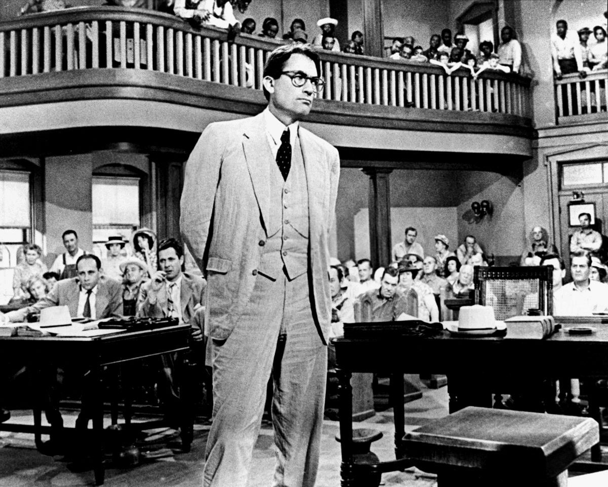 Gregory Peck publicity photo for the film To Kill a Mockingbird, 1962